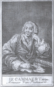 J.F.Cammaert, Minnaer der Parnassus, Brussels' rhetorician, engraving from the collection of the Rijksuniversiteit, Centrale Bibliiotheek, Ghent